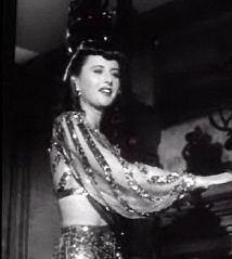 Cropped screenshot of Barbara Stanwyck from the trailer for the film Ball of Fire